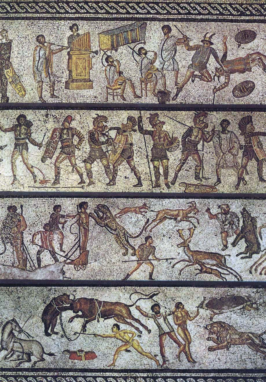 Mosaic showing Roman entertainments from the 1st century. Jamahiriya Museum, Tripoli, Libya. From Dar Buc Ammera villa (Zliten).